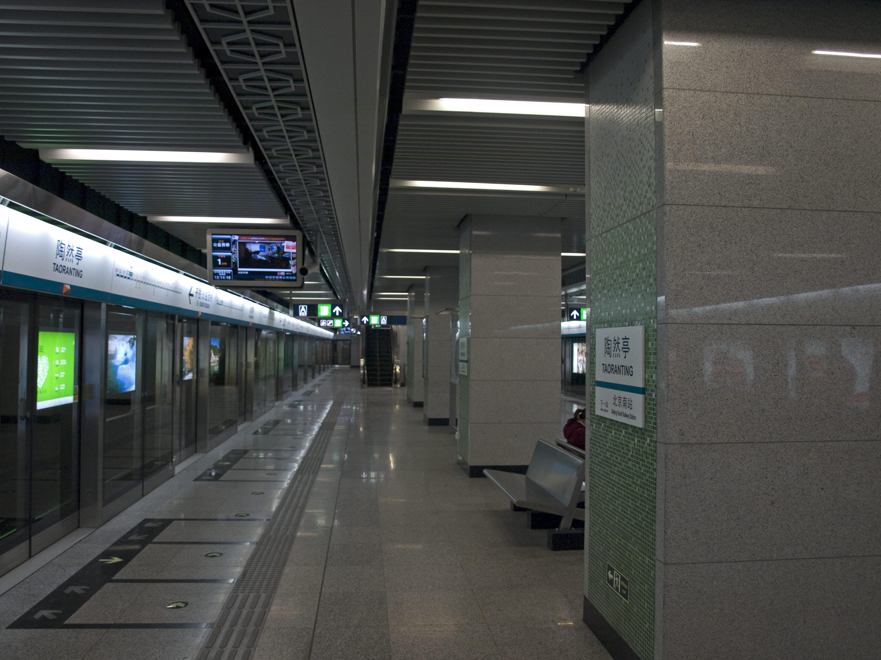 Taoranting station, Beijing Subway